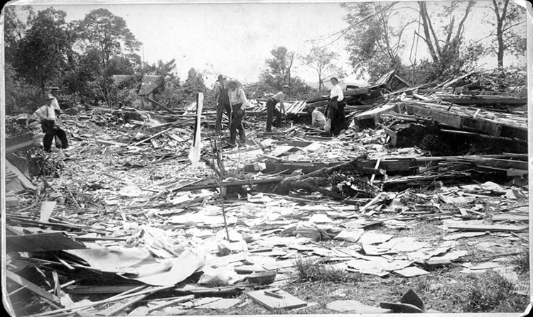 Damages from the Chappaqua tornado in 1904